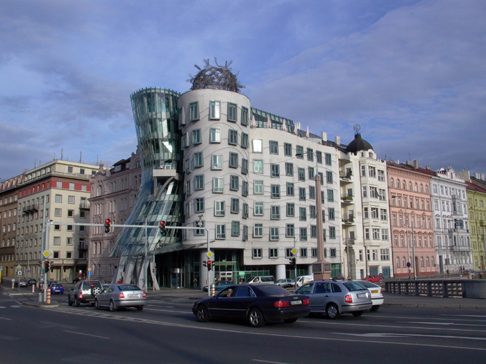 The building 'Ginger and Fred' in Prague, built by the architect Frank O. Gehry (1996). Picture taken by Daniel van der Ree, The Netherlands.